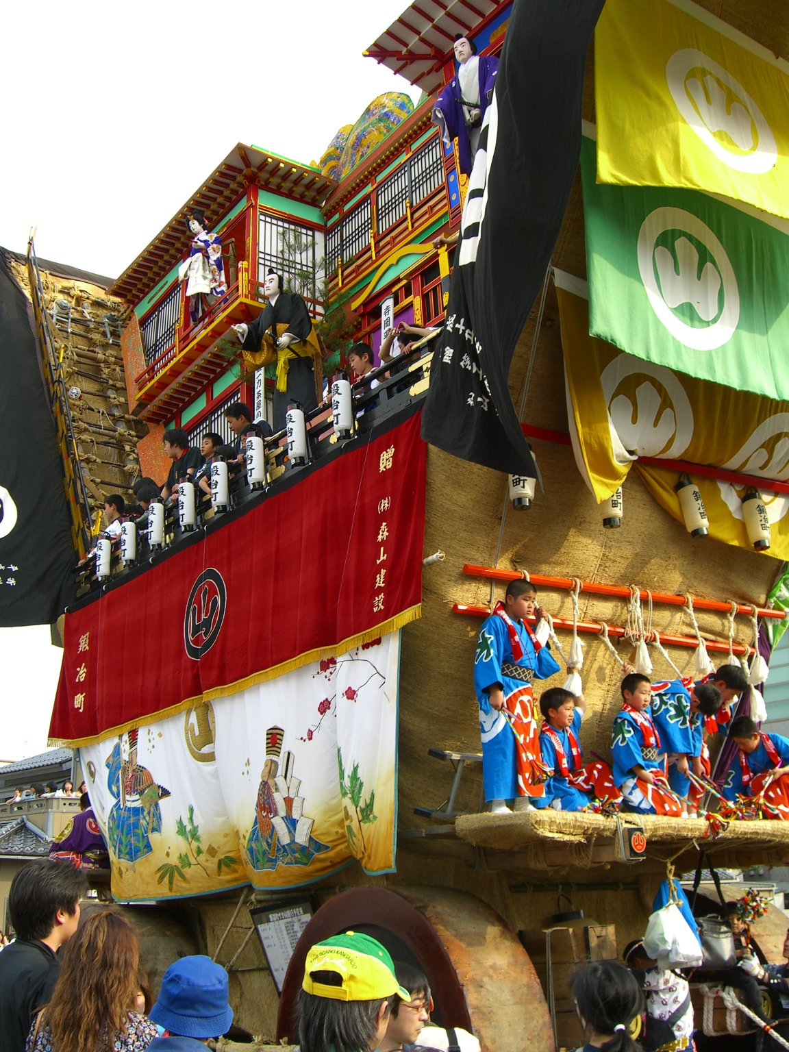 The "Dekayama" from Seihakusai Matsuri, in Nanao, Ishikawa, Japan. This picture was taken by Endroit on May 5, 2006, during the matsuri in Nanao City, Ishikawa Prefecture, Japan. Endroit